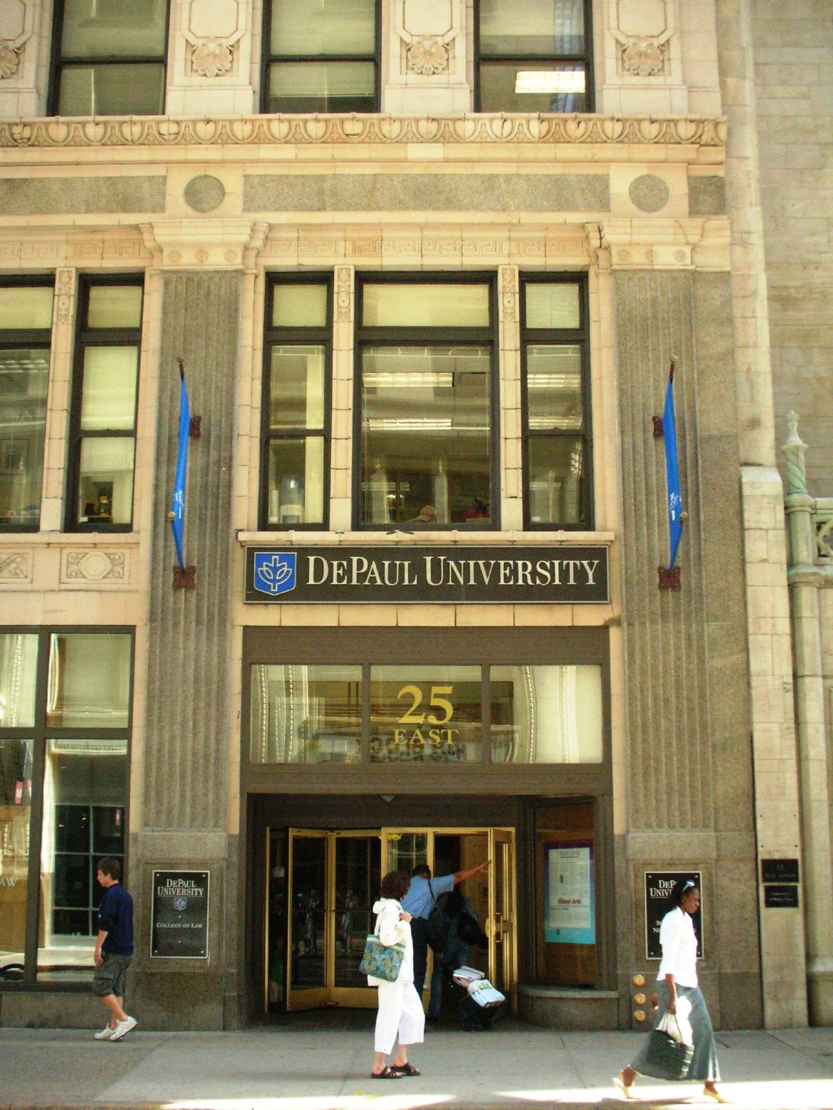 DePaul University, Chicago, Illinois